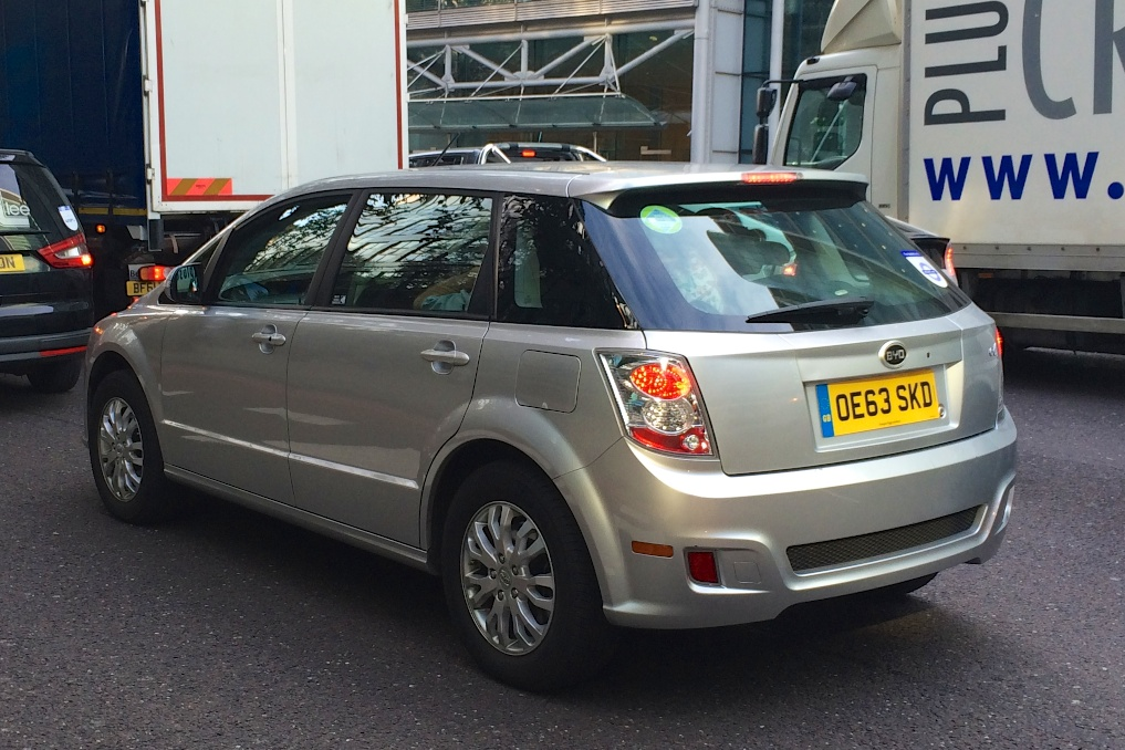 Rear view of a BYD e6 private hire on Euston Road, London (September 2014)